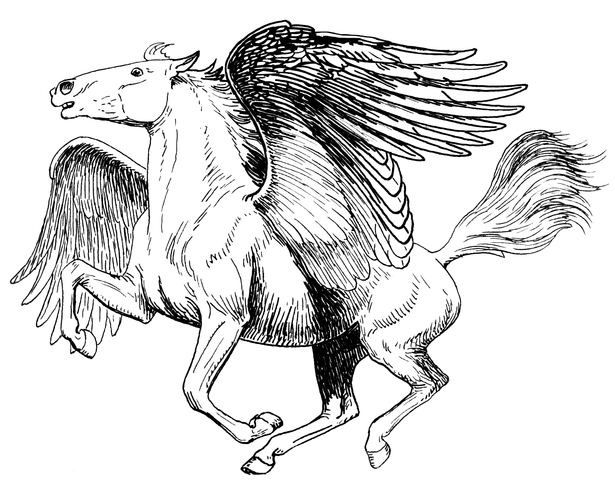 Line art drawing of Pegasus.